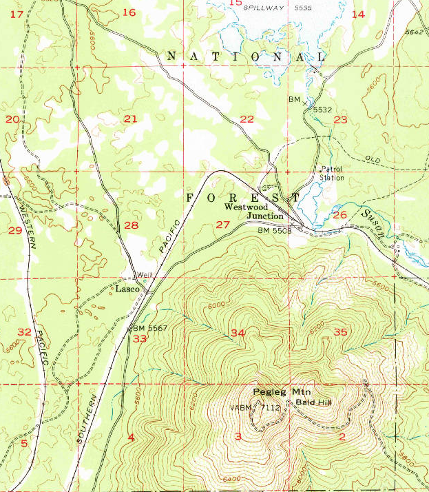 Excerpt of 1955 USGS Map showing Lasco, California